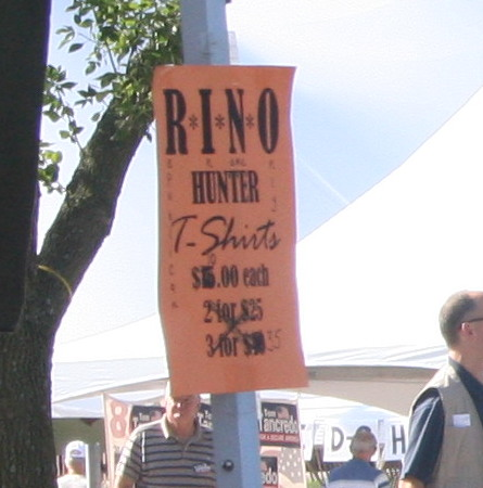 Ames Straw Poll